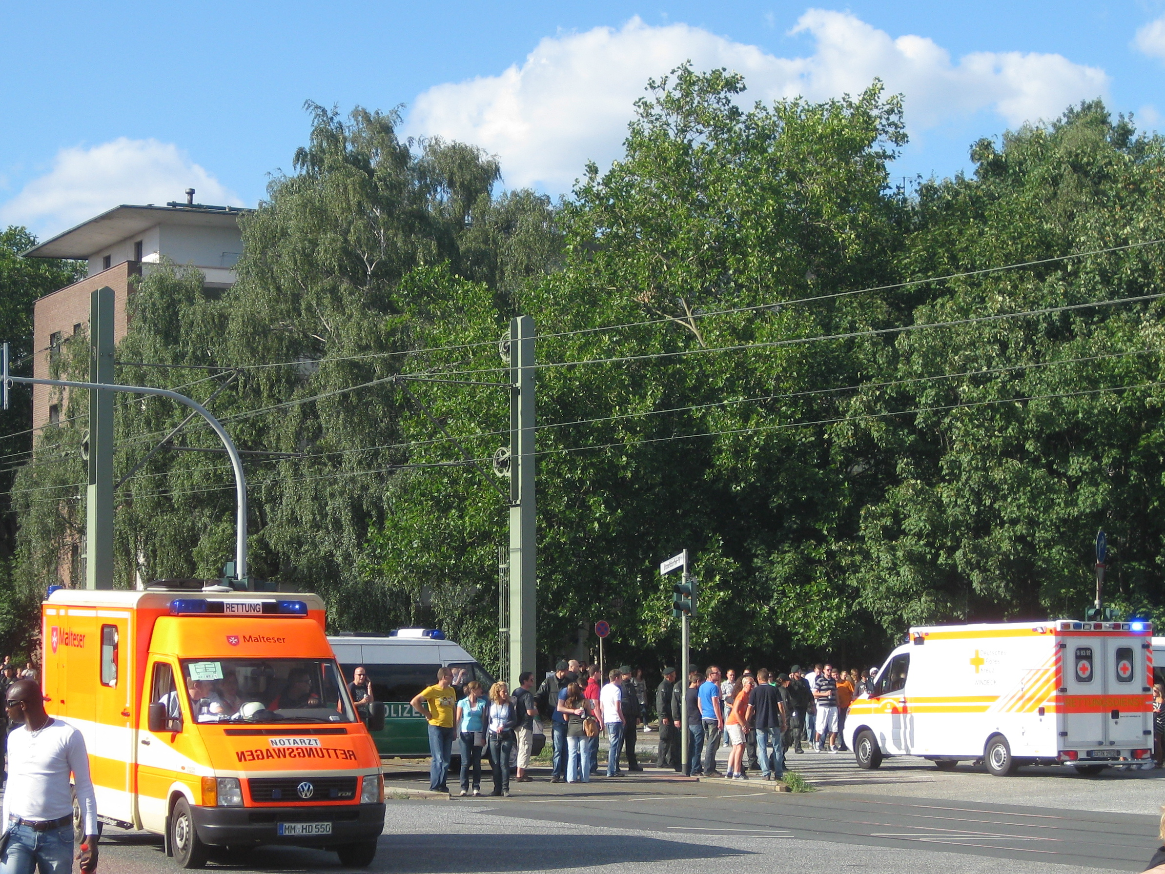 Malteser ambulance at Düsseldorfer Straße, Duisburg, Germany. VW vehicle with "RETTUNGSWAGEN" in mirror writing ("NEGAWSGNUTTER").